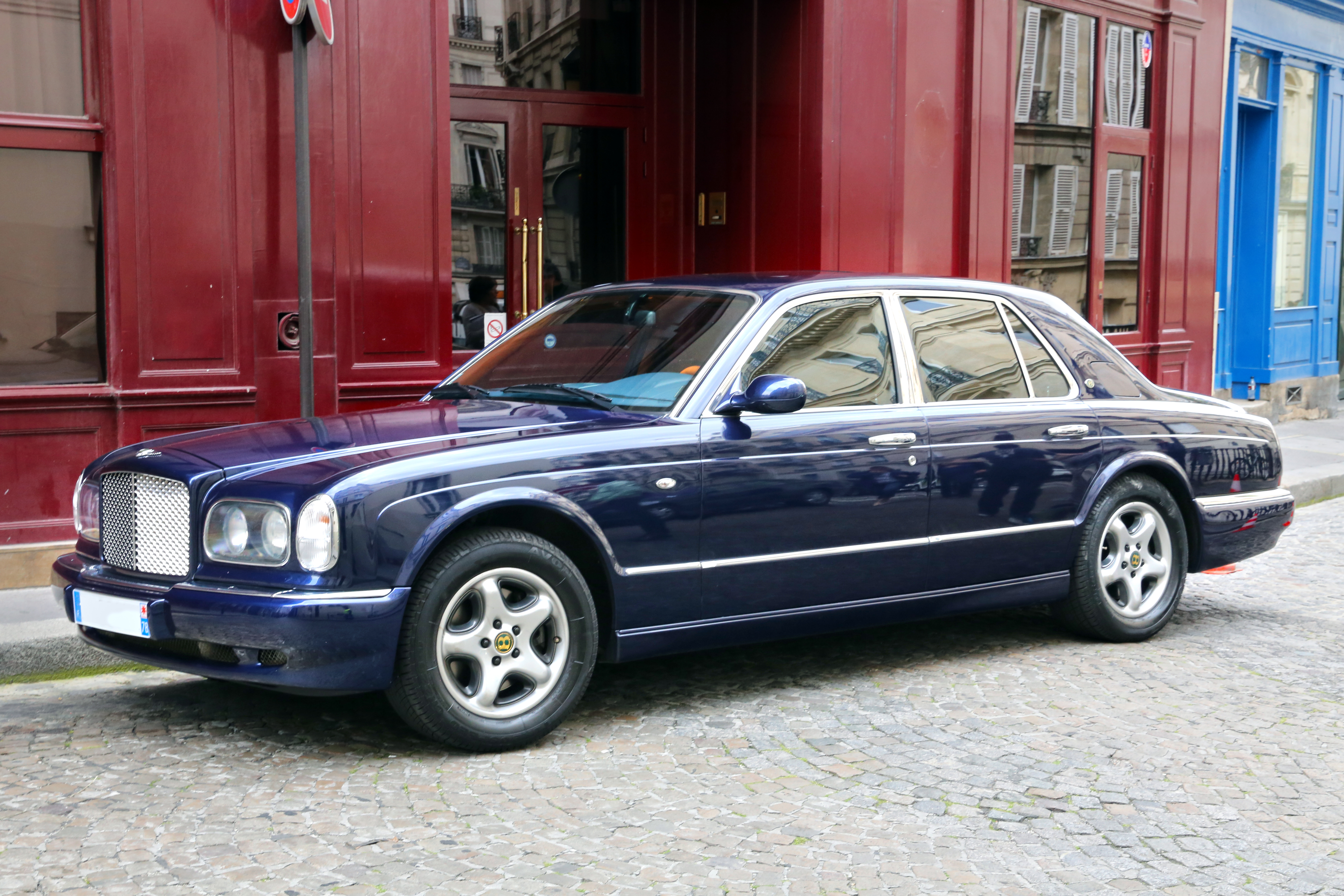 Looks to be one of the rare Green Label versions. The owner seems to be making a living from this car and handed me a card with his info, which I promptly lost.